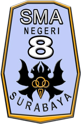 Logo sman 8 surabaya